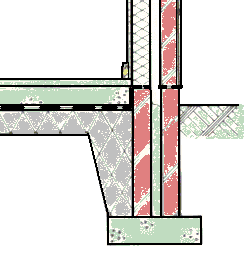 Foundation sketch for use in Solid ground floors